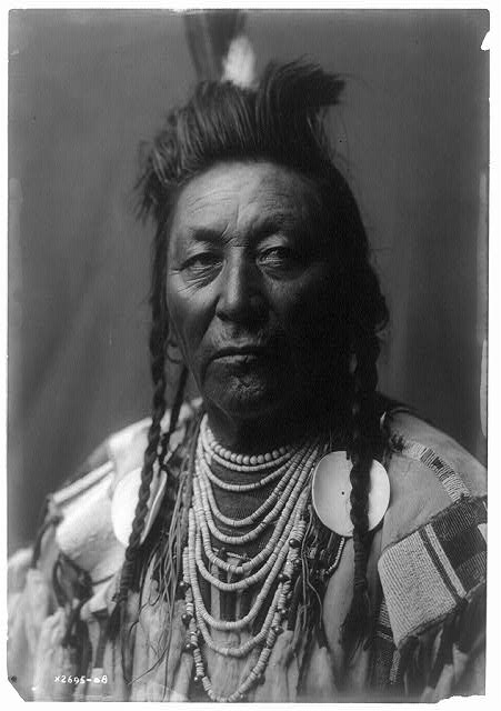 Edward S. Curtis photographic portrait of Plenty Coups, entitled "Plenty Coups [A], Apsaroke"